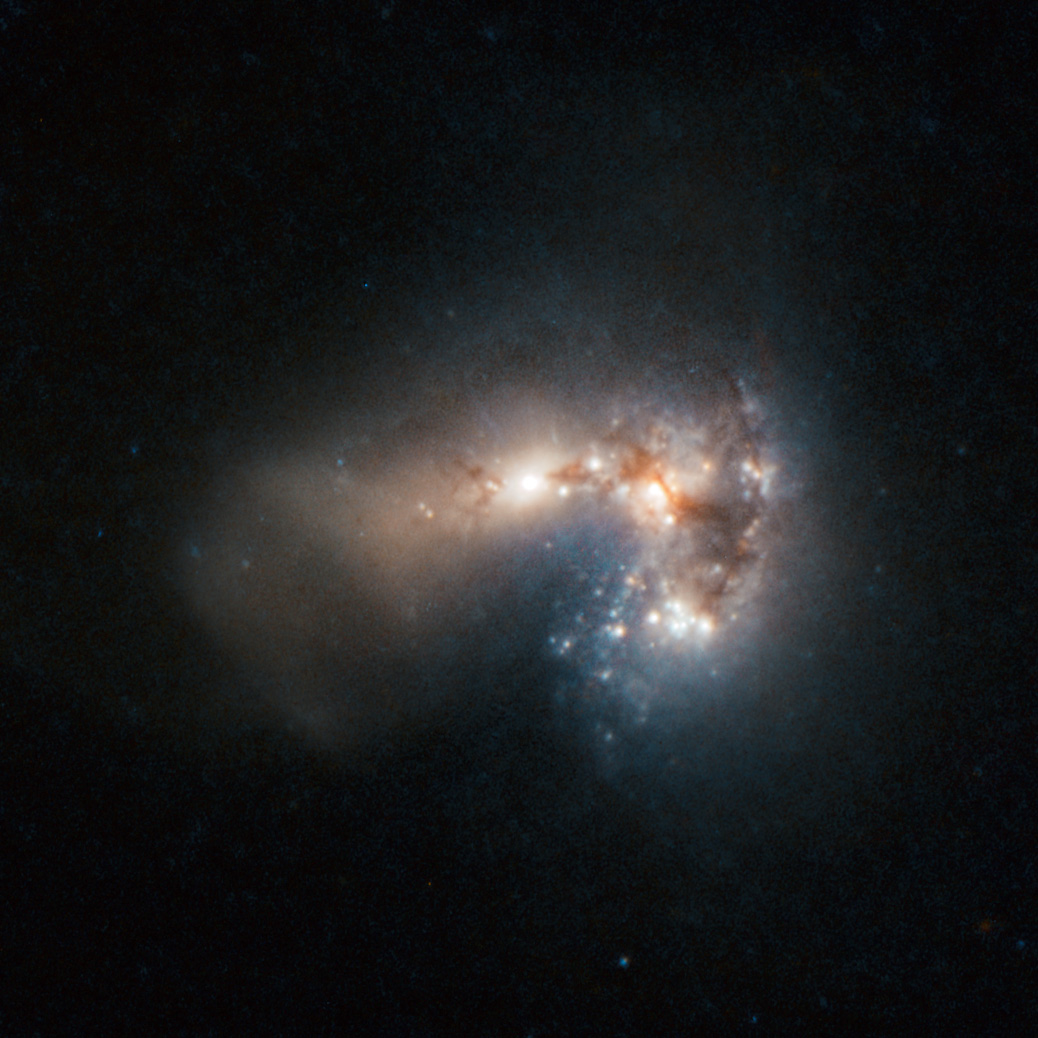 Haro 11 appears to shine gently amid clouds of gas and dust, but this placid facade belies the monumental rate of star formation occurring in this “starburst” galaxy. By combining data from ESO’s Very Large Telescope and the NASA/ESA Hubble Space Telescope, astronomers have created a new image of this incredibly bright and distant galaxy. The team of astronomers from Stockholm University, Sweden, and the Geneva Observatory, Switzerland, have identified 200 separate clusters of very young, massive stars. Most of these are less than 10 million years old. Many of the clusters are so bright in infrared light that astronomers suspect that the stars are still emerging from the cloudy cocoons where they were born. The observations have led the astronomers to conclude that Haro 11 is most likely the result of a merger between a galaxy rich in stars and a younger, gas-rich galaxy. Haro 11 is found to produce stars at a frantic rate, converting about 20 solar masses of gas into stars every year. Haro galaxies, first discovered by the noted astronomer Guillermo Haro in 1956, are defined by unusually intense blue and violet light. Usually this high energy radiation comes from the presence of many newborn stars or an active galactic nucleus. Haro 11 is about 300 million light-years away and is the second closest of such starburst galaxies.